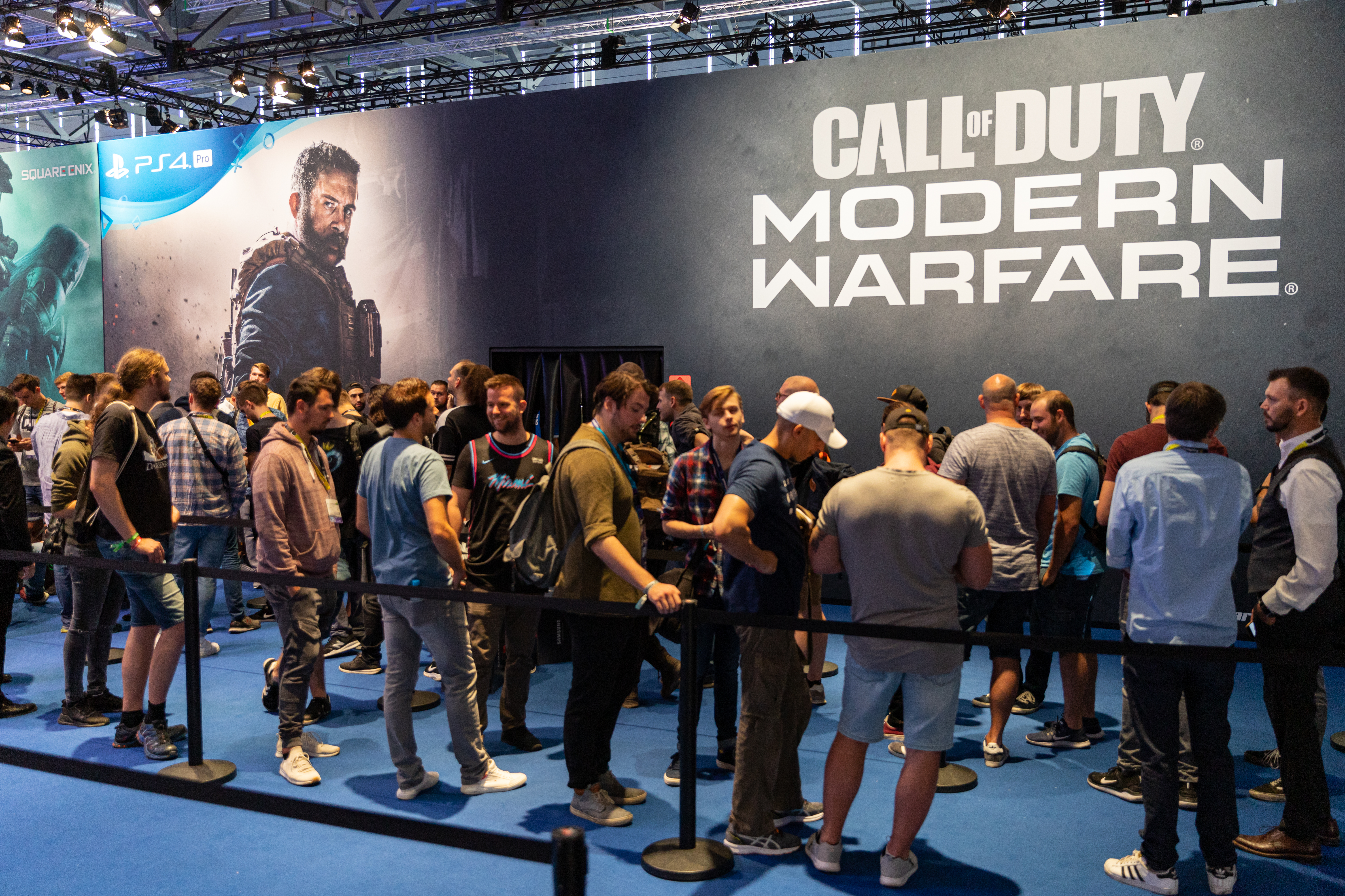 Call of Duty Modern Warfare Gamescom 2019